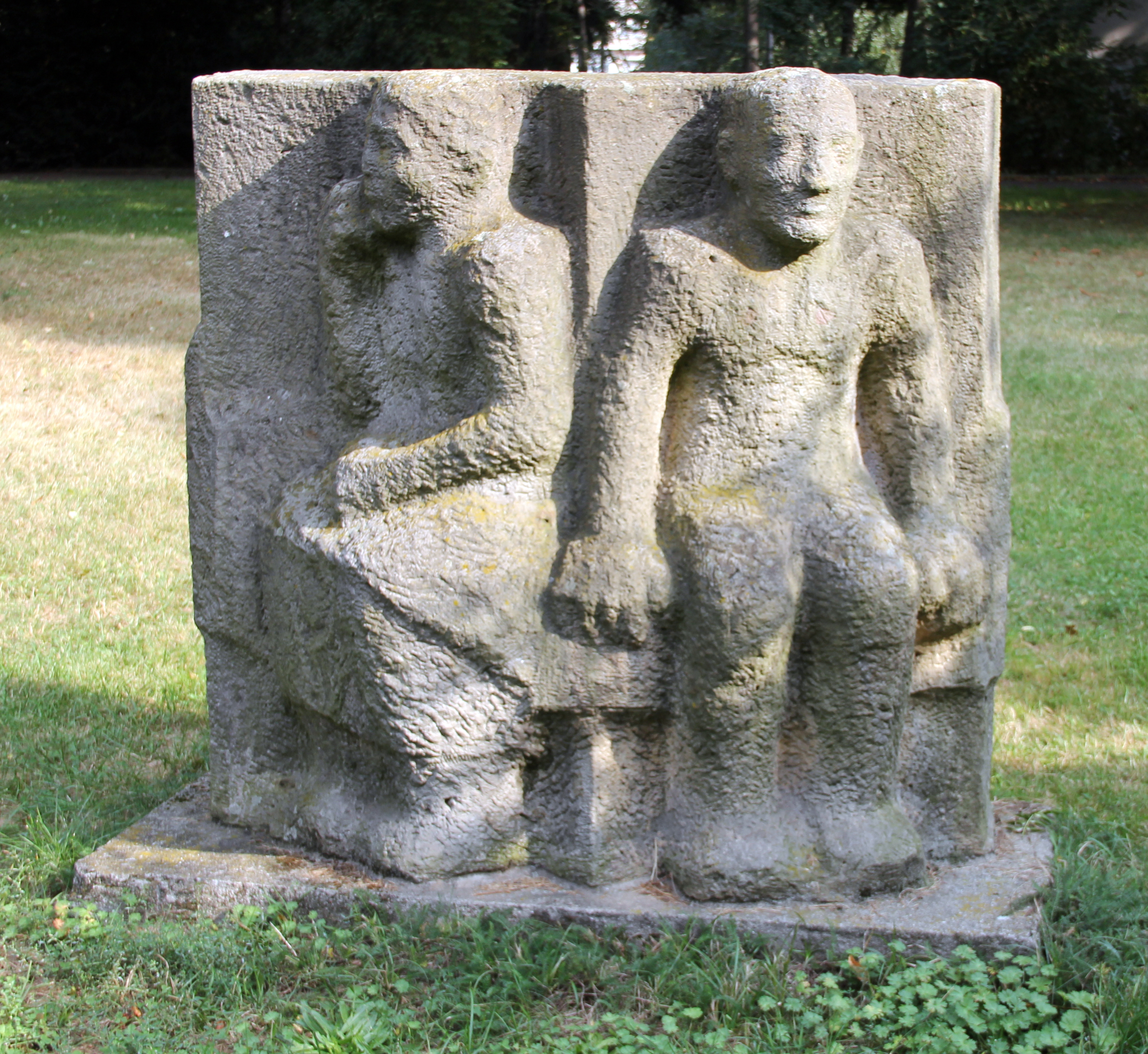 Sculpture, "Erben der Spartakuskämpfer" by Emerita Pansowová, 1987, Rathausstraße 10, Berlin-Lichtenberg, Germany